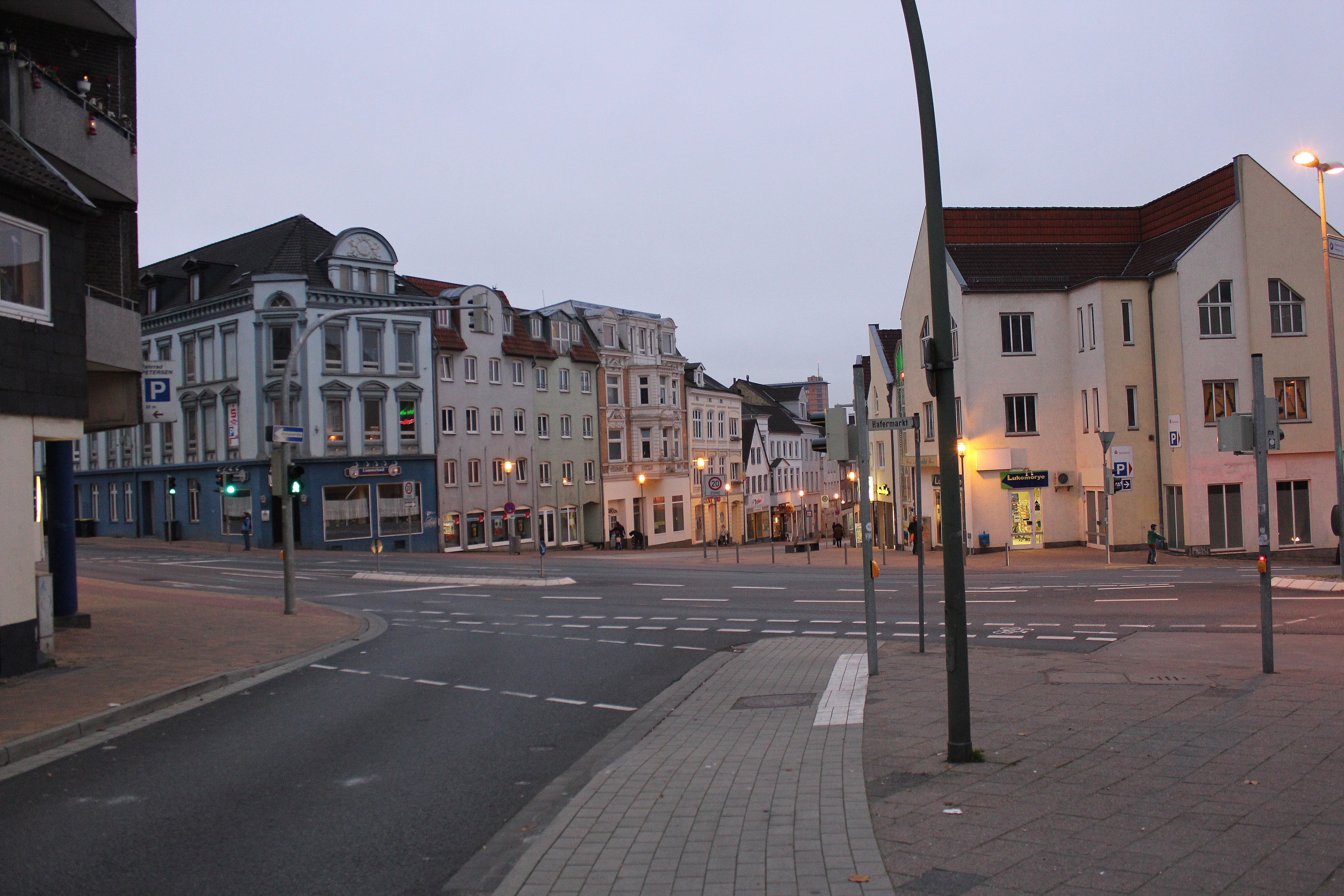 Hafermarkt, Flensburg, 2011